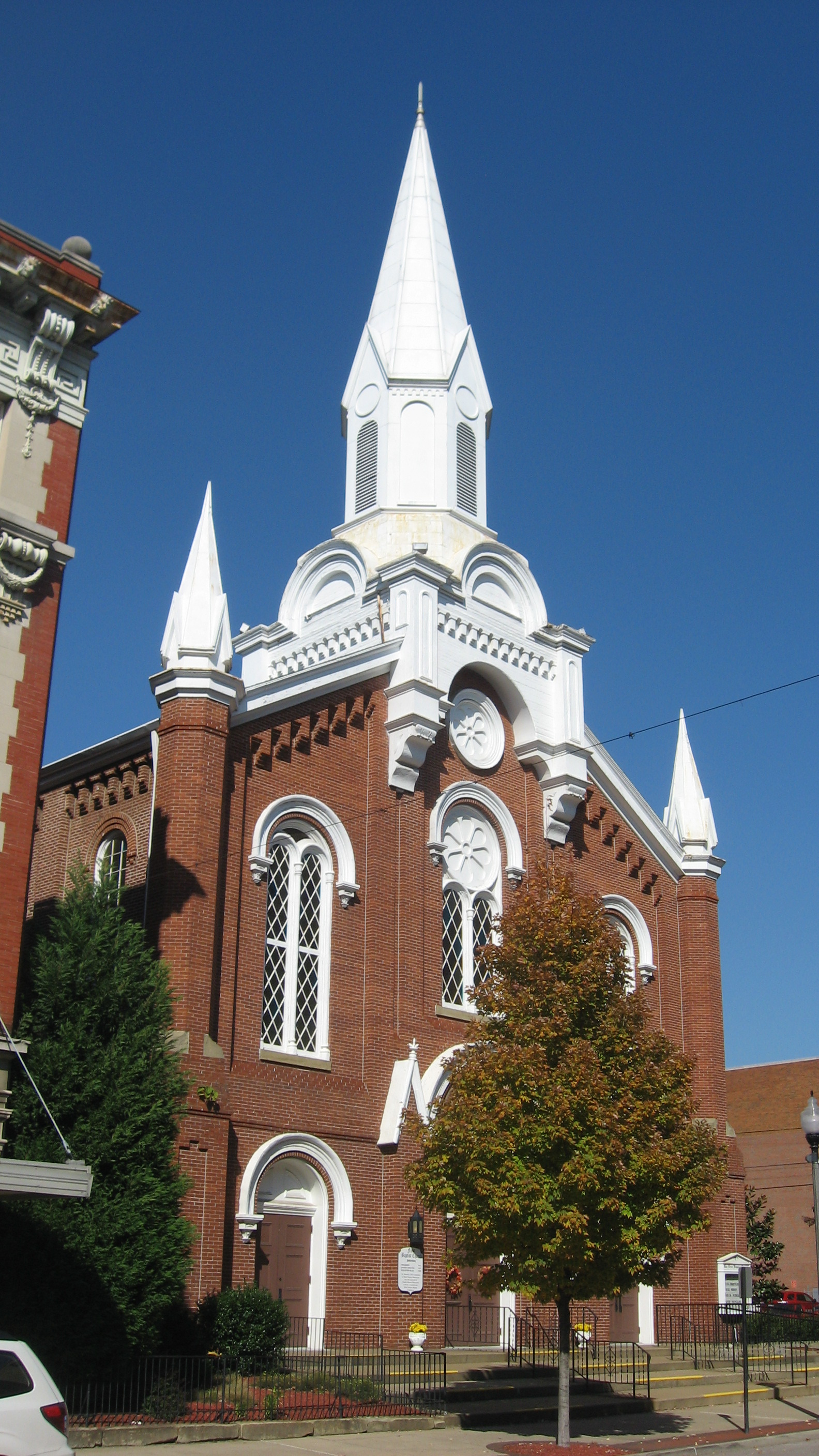 Front of the First Baptist Church, located at 813 Market Street in Parkersburg, West Virginia, United States. Built in 1871, it is listed on the National Register of Historic Places.